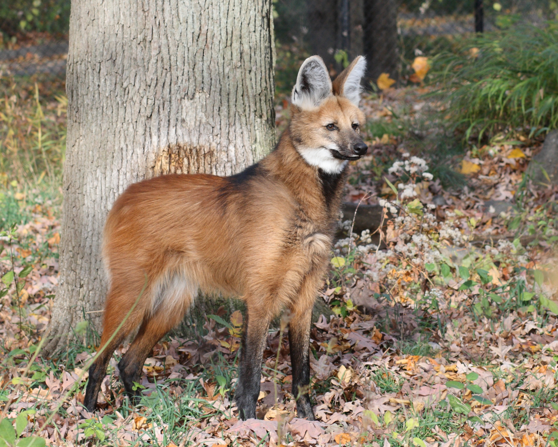 A Maned Wolf (Chrysocyon brachyurus) at Beardsley Zoo - Google Maps - Google Earth